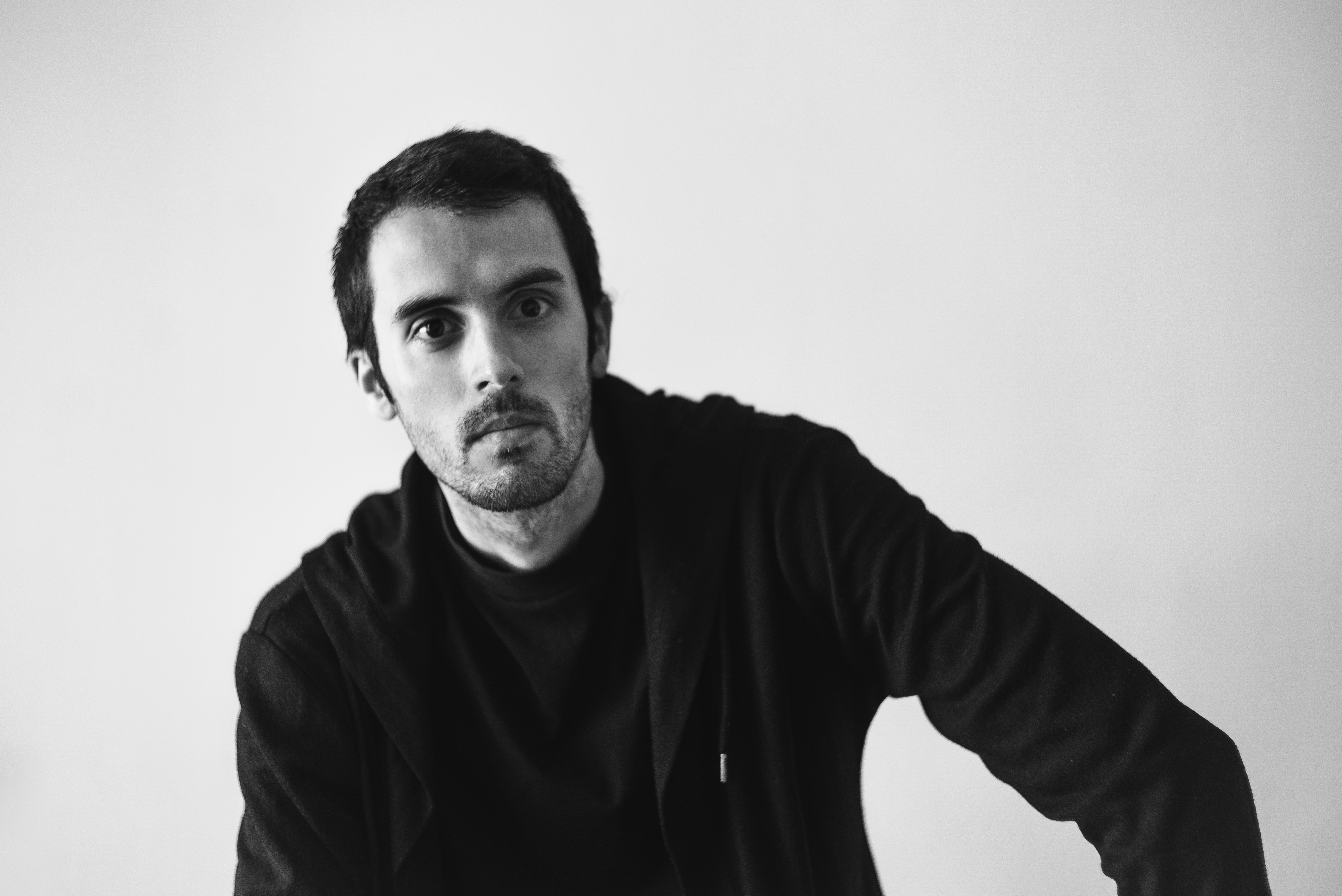 J. A. Moreno